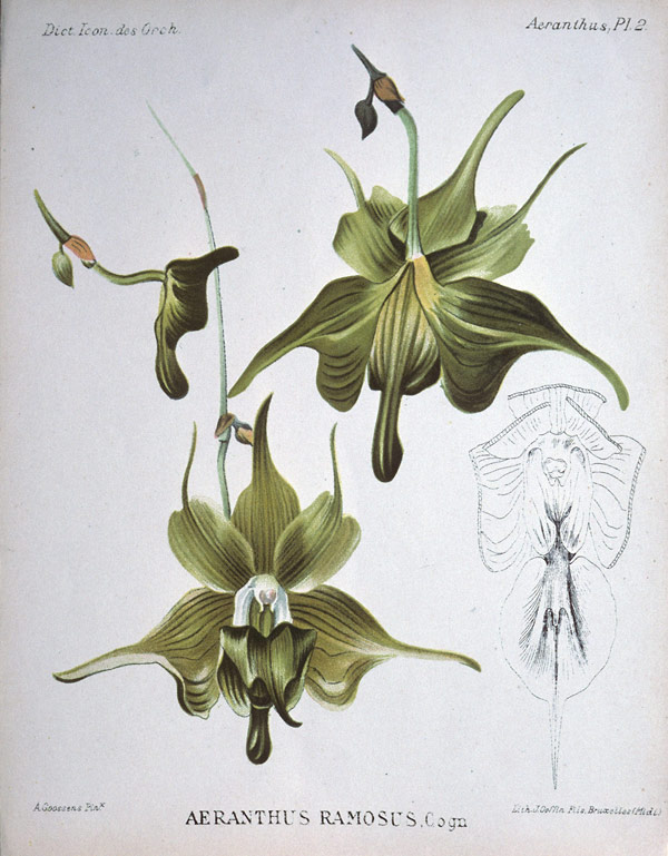 The Branched Aeranthes